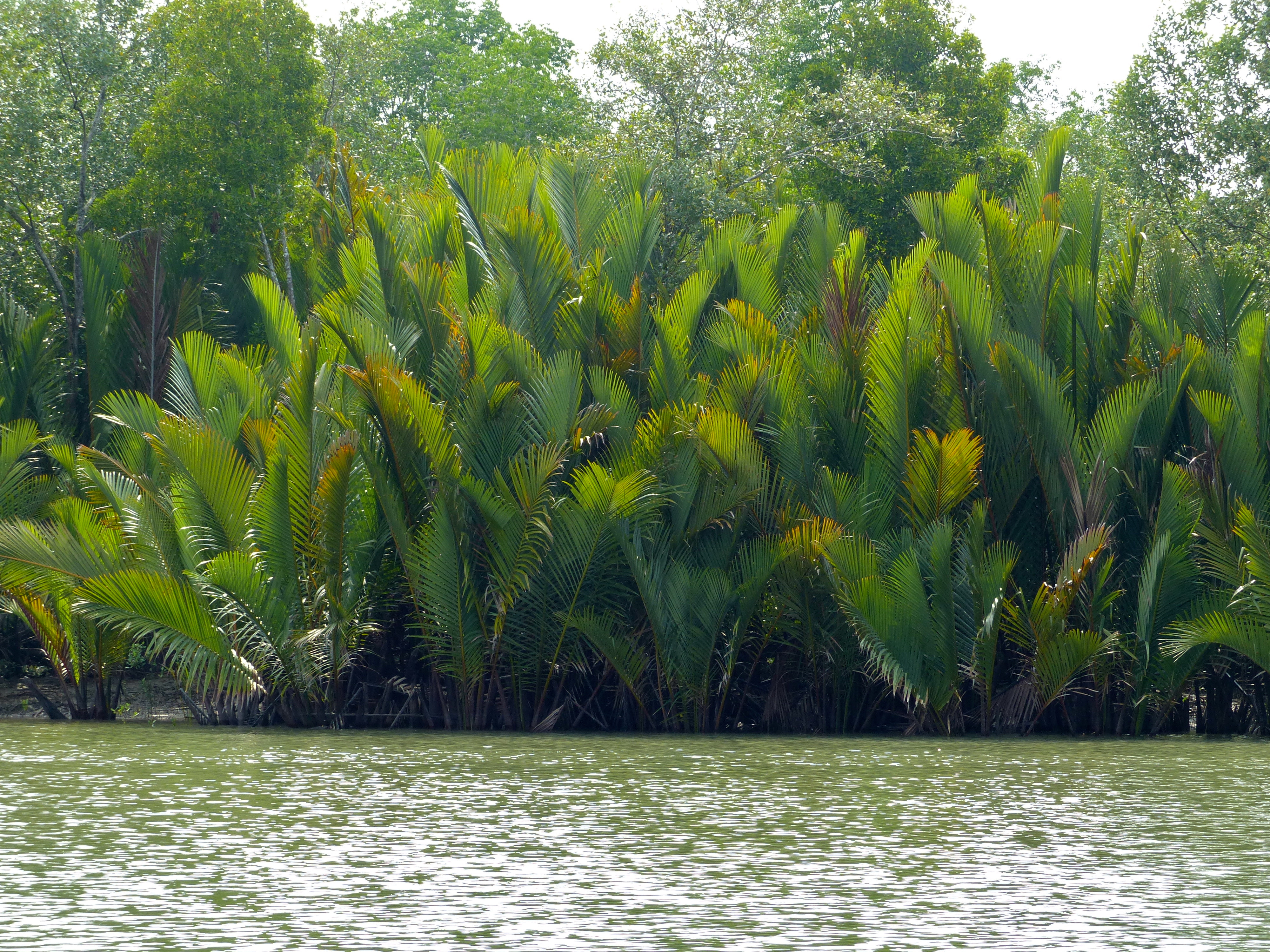 Nipah Palms (Nypa fruticans) Sungai Santubong North of Kuching, Sarawak, Malaysia